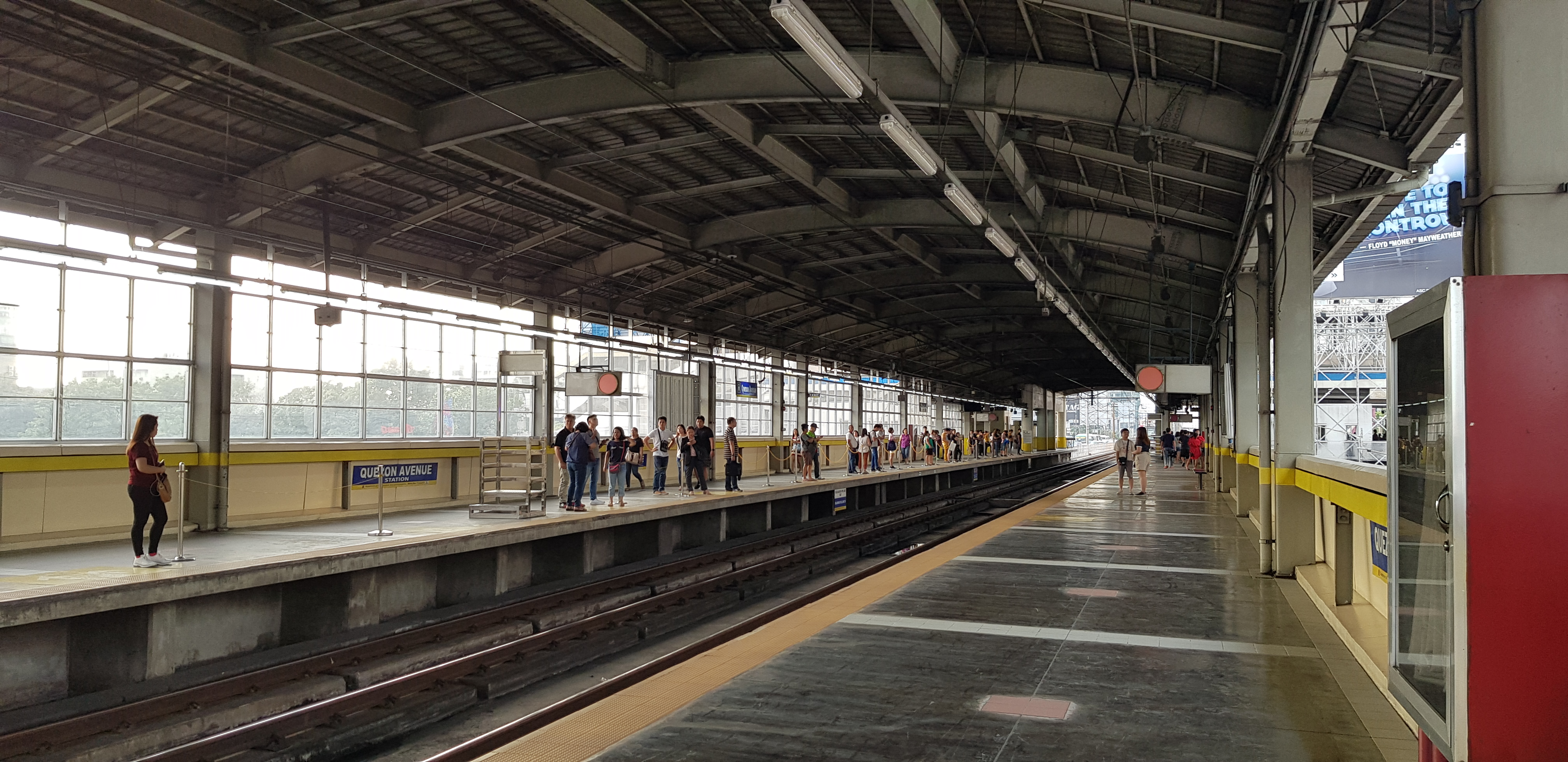 Line 3 Quezon Avenue Station Platform